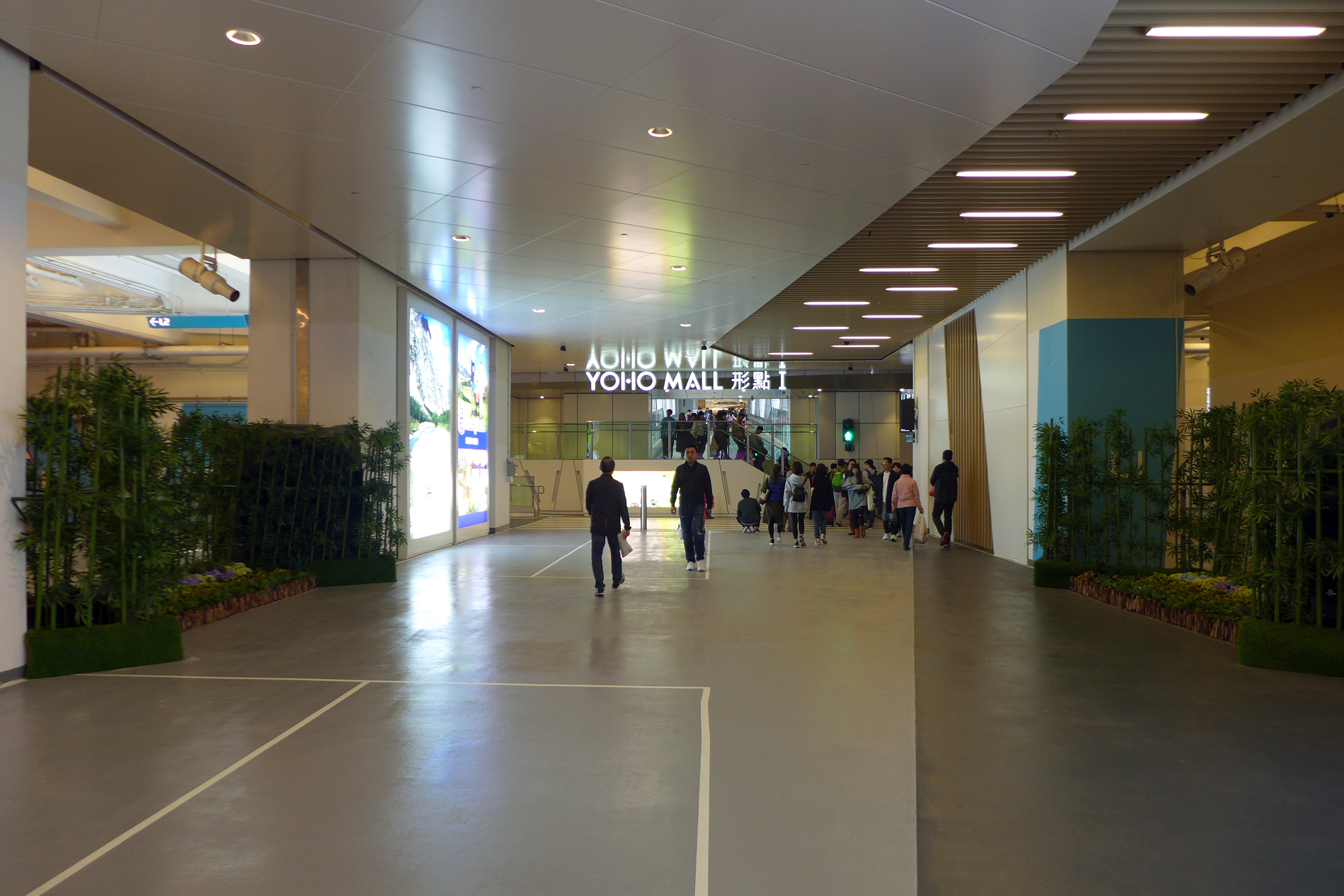 YOHO MALL II Pedestrian Crossing